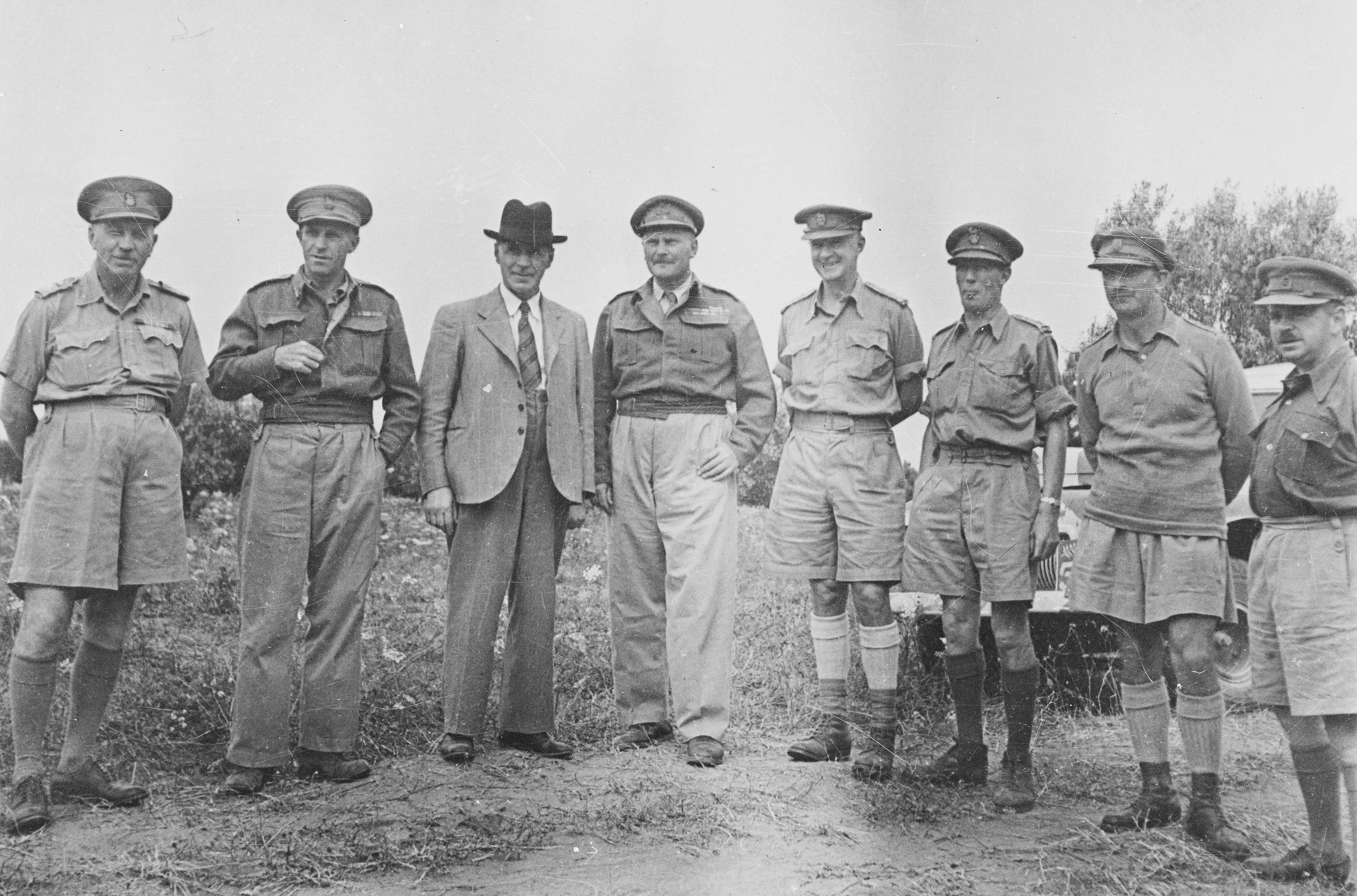 Army officers, with the New Zealand Minister of Defence, Frederick Jones, in Tunisia during World War 2, circa May 1943. From left to right: Brigadier G B Parkinson (commanding 6 Brigade), General H K Kippenberger (commanding 5 Brigade), Hon F Jones (Minister of Defence), Lieut Gen B C Freyberg, Brigadier W G Stevens, Colonel R Queree, Brigadier C E Weir, and Lieut Col B Barrington. Photographer unidentified.